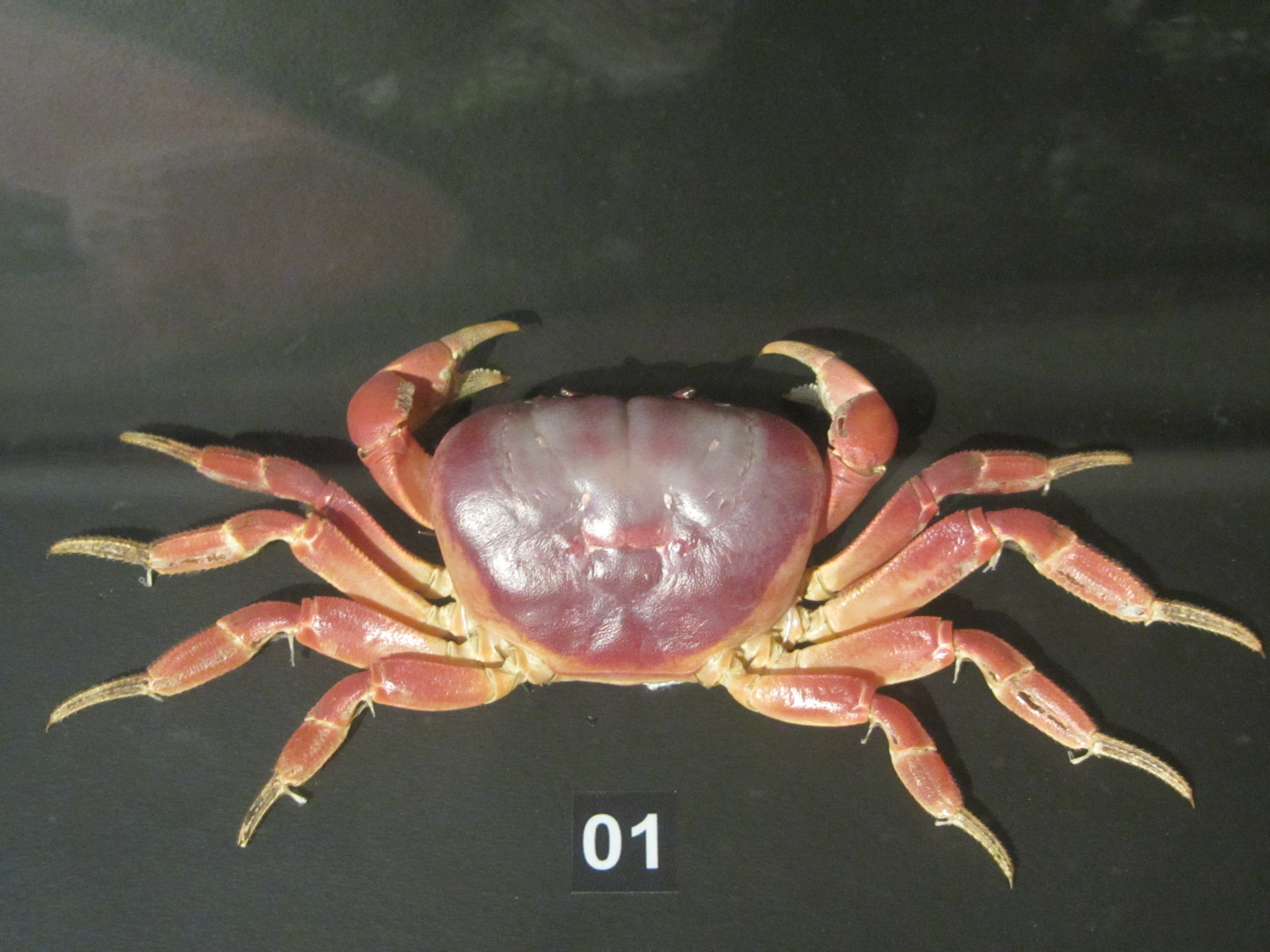 Specimen of Gecarcoidea lalandii